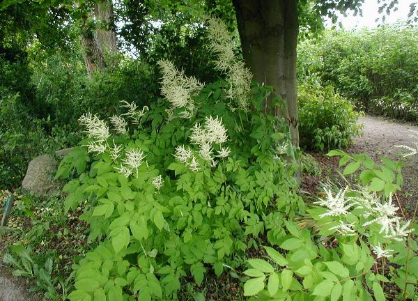 Aruncus dioicus: Habit and flowers.